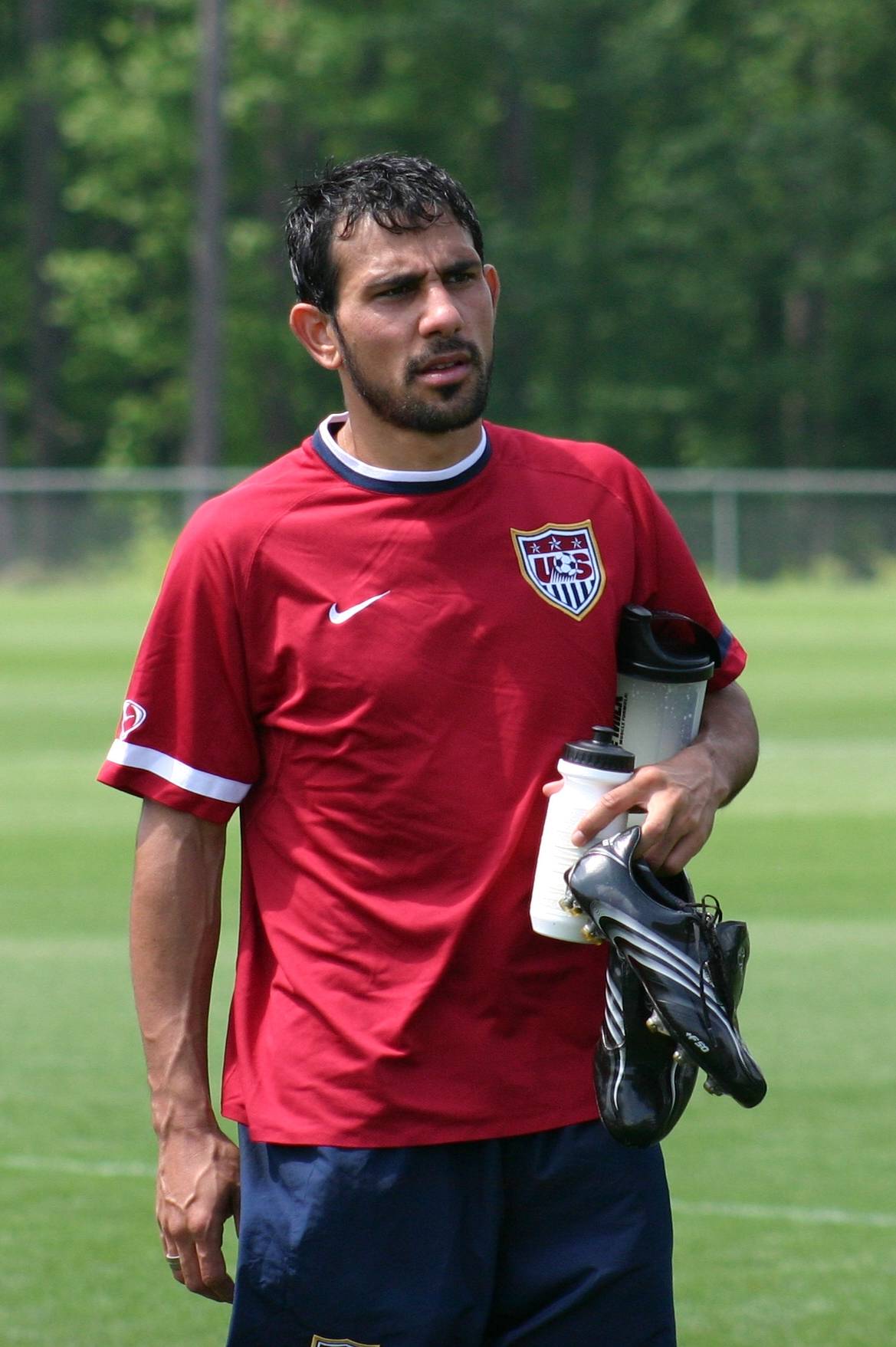 Pablo Mastroeni during USMNT practice session